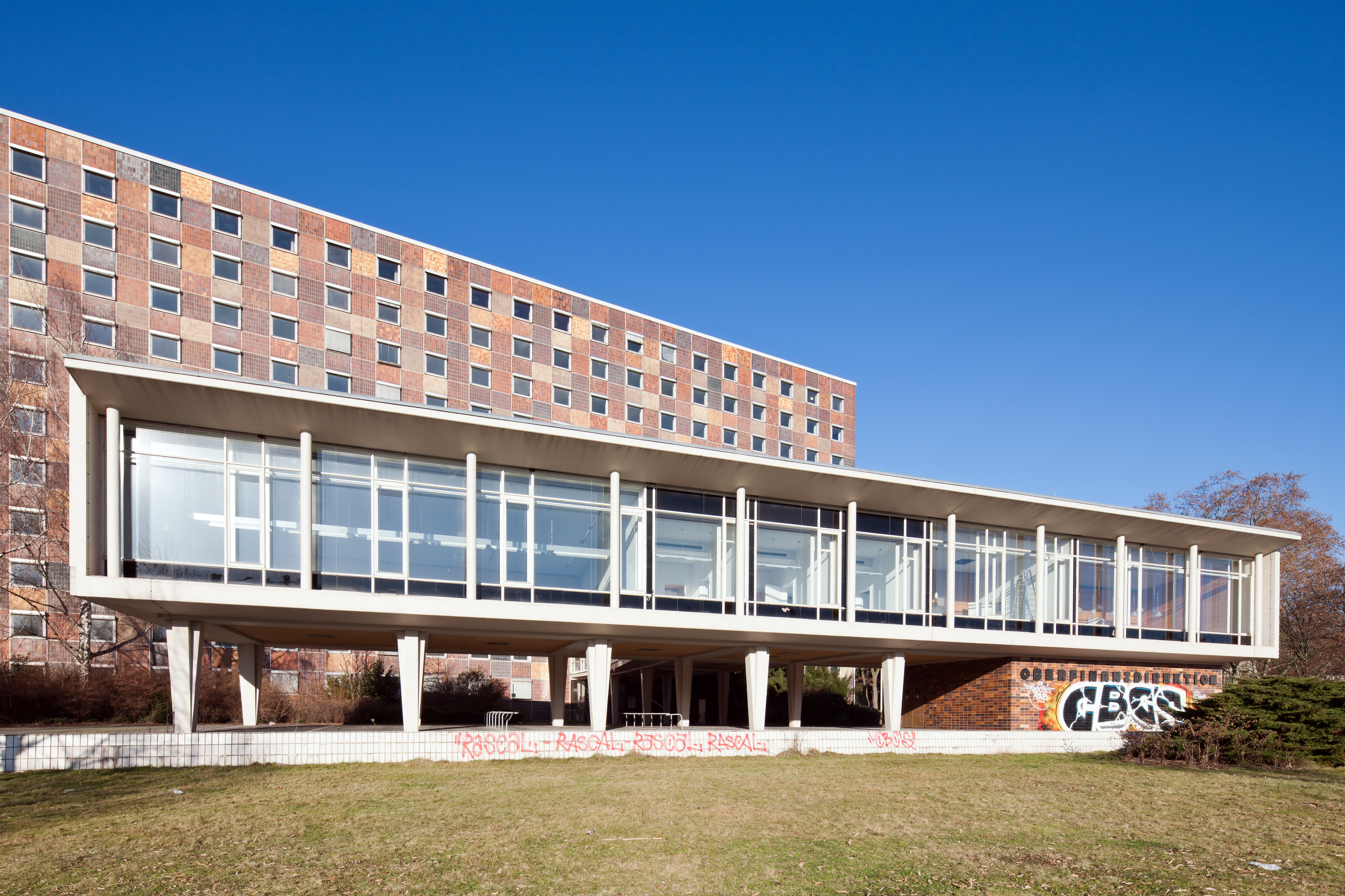 Frankfurt on the Main: Former Oberfinanzdirektion (Upper Finance Directorate), pavilion as seen from the southwest